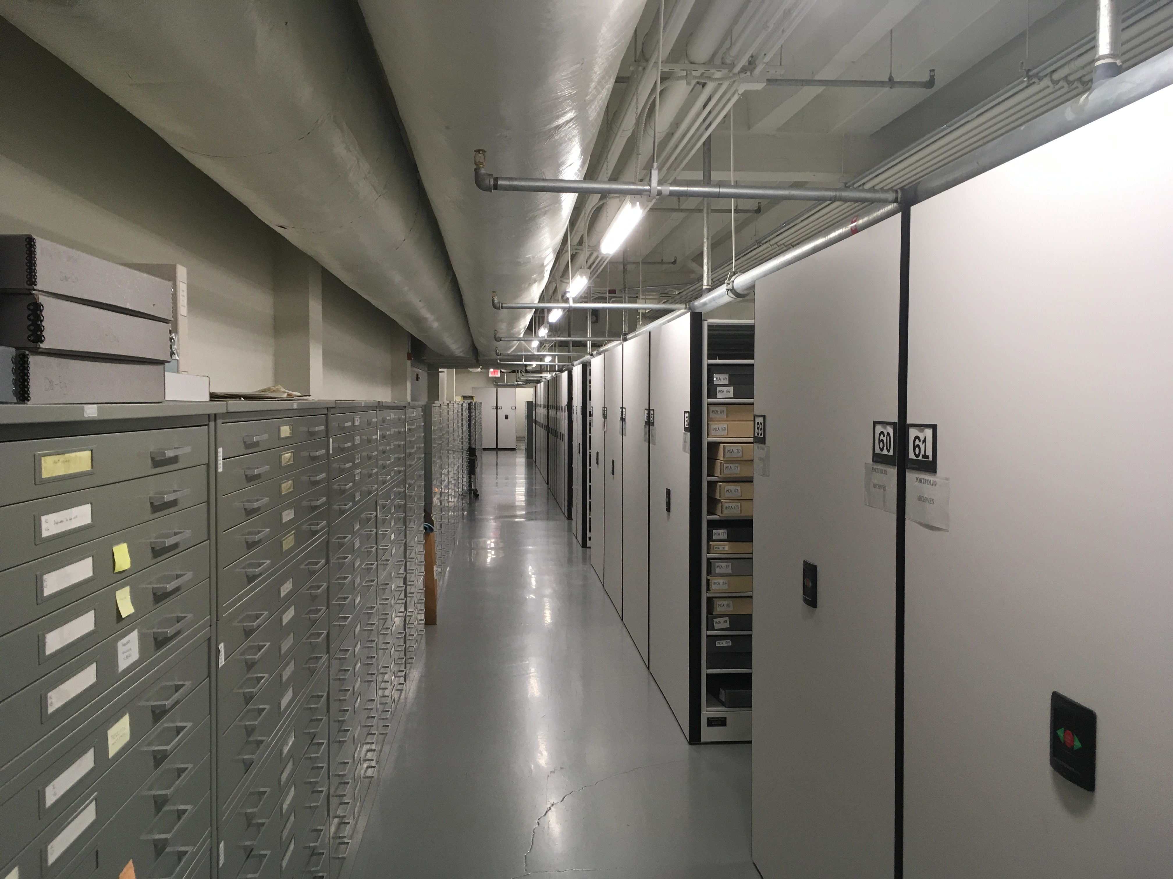 A small selection of works preserved at the Billy Ireland Cartoon Library at The Ohio State University in Columbus Ohio.